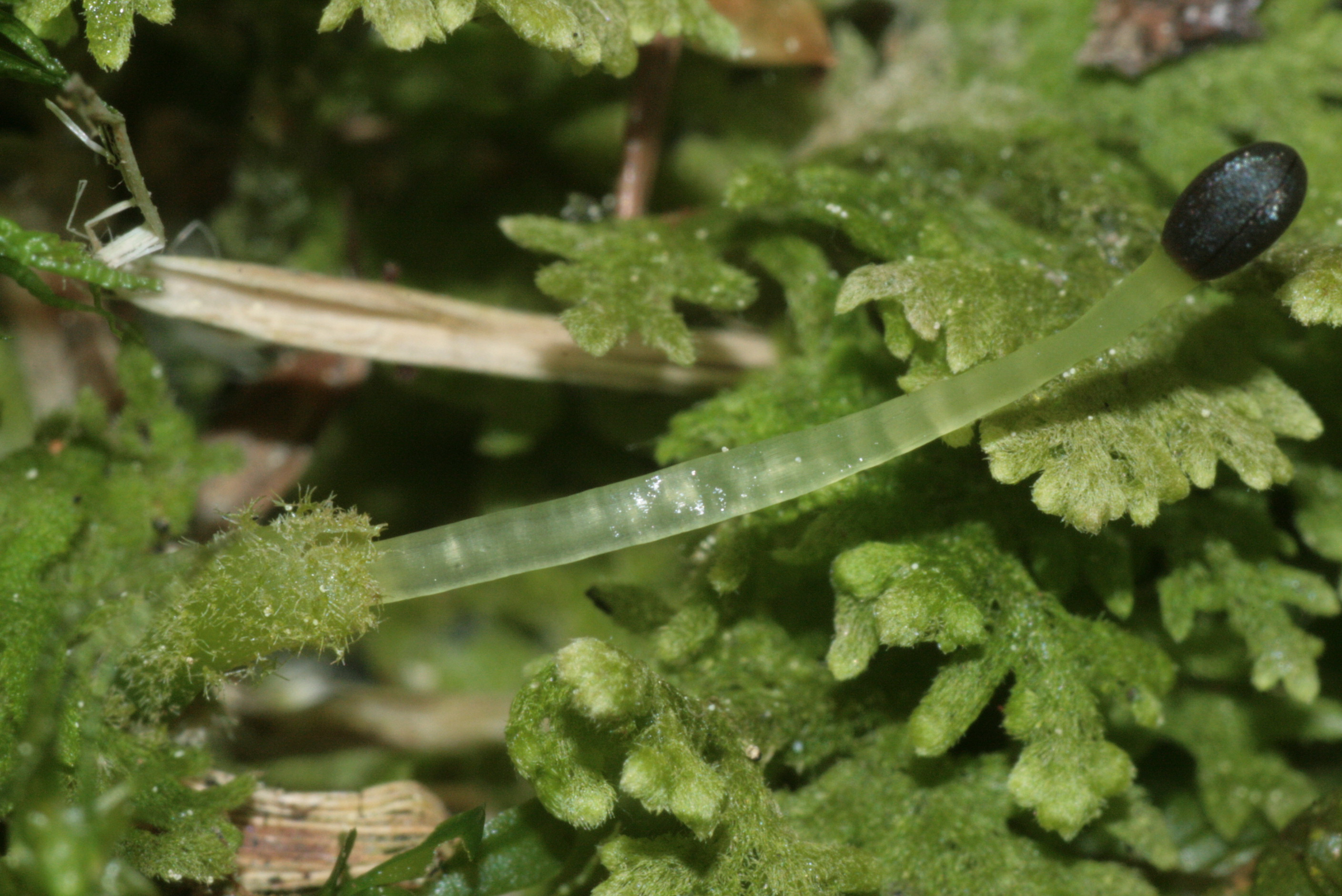 Trichocolea tomentella